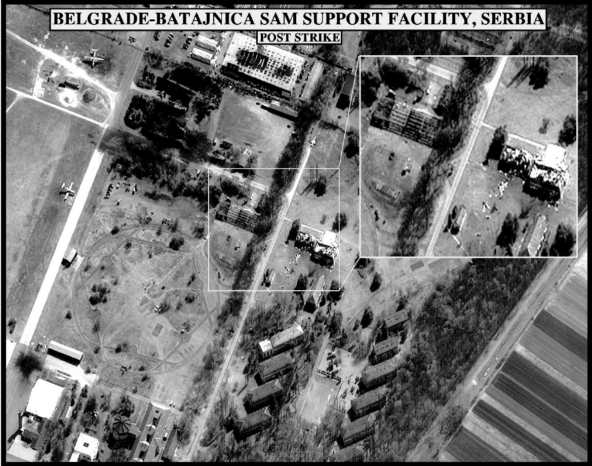 Post-strike bomb damage assessment photograph of the Belgrade-Batajanica SAM Support Facility, Serbia, used by Joint Staff Vice Director for Strategic Plans and Policy Maj. Gen. Charles F. Wald, U.S. Air Force, during a press briefing on NATO Operation Allied Force in the Pentagon on May 7, 1999.